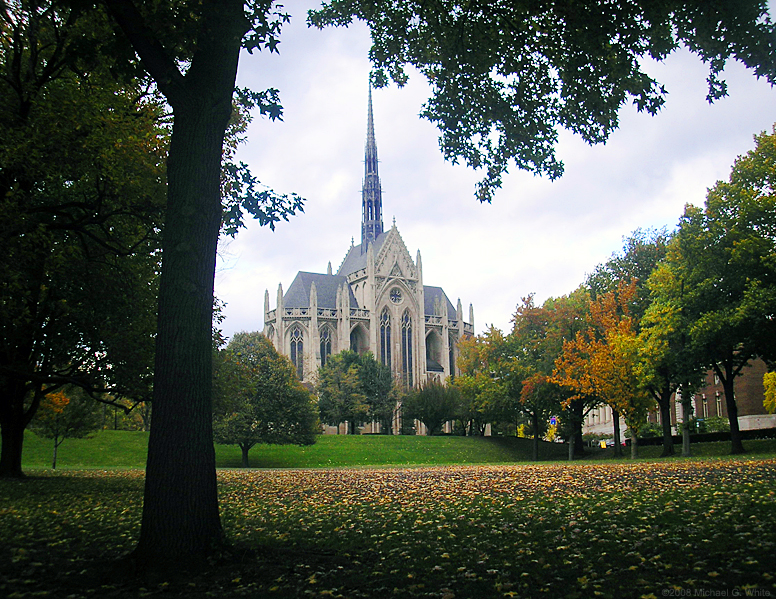 Heinz Memorial Chapel at the University of Pittsburgh. photo by Michael G White